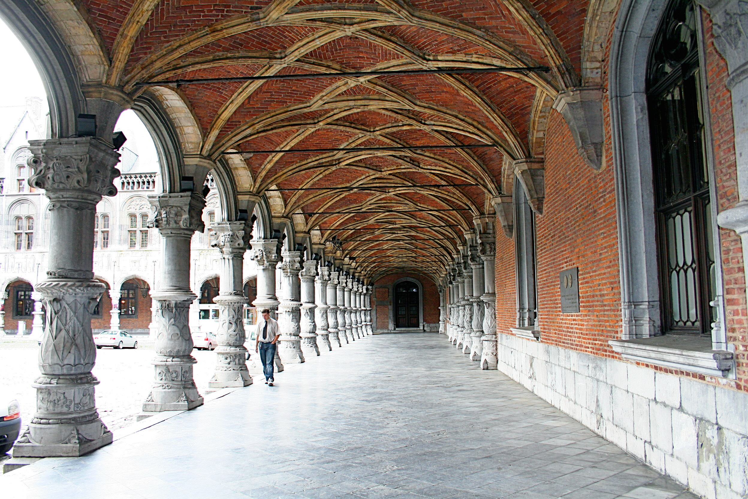 Liège (Belgium), western covered walk of the Prince-bishops Palace main courtyard (XVIth century).